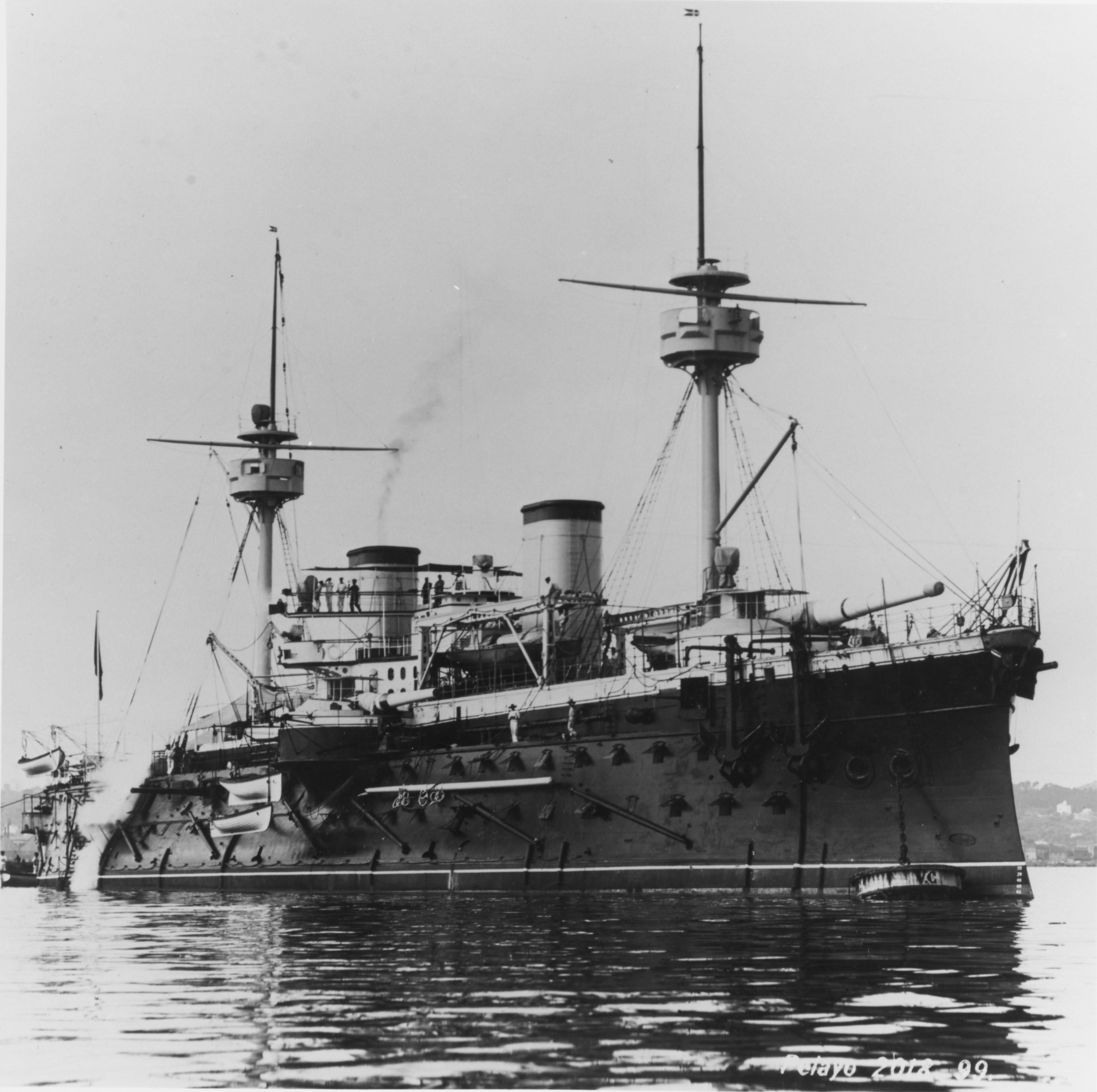 Spanish battleship Pelayo, c.1890s